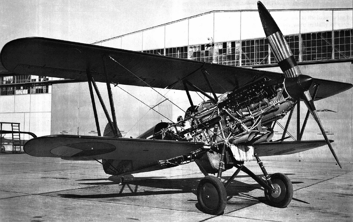 Czechoslovak Avia B-534 fighter aircraft, early variant.